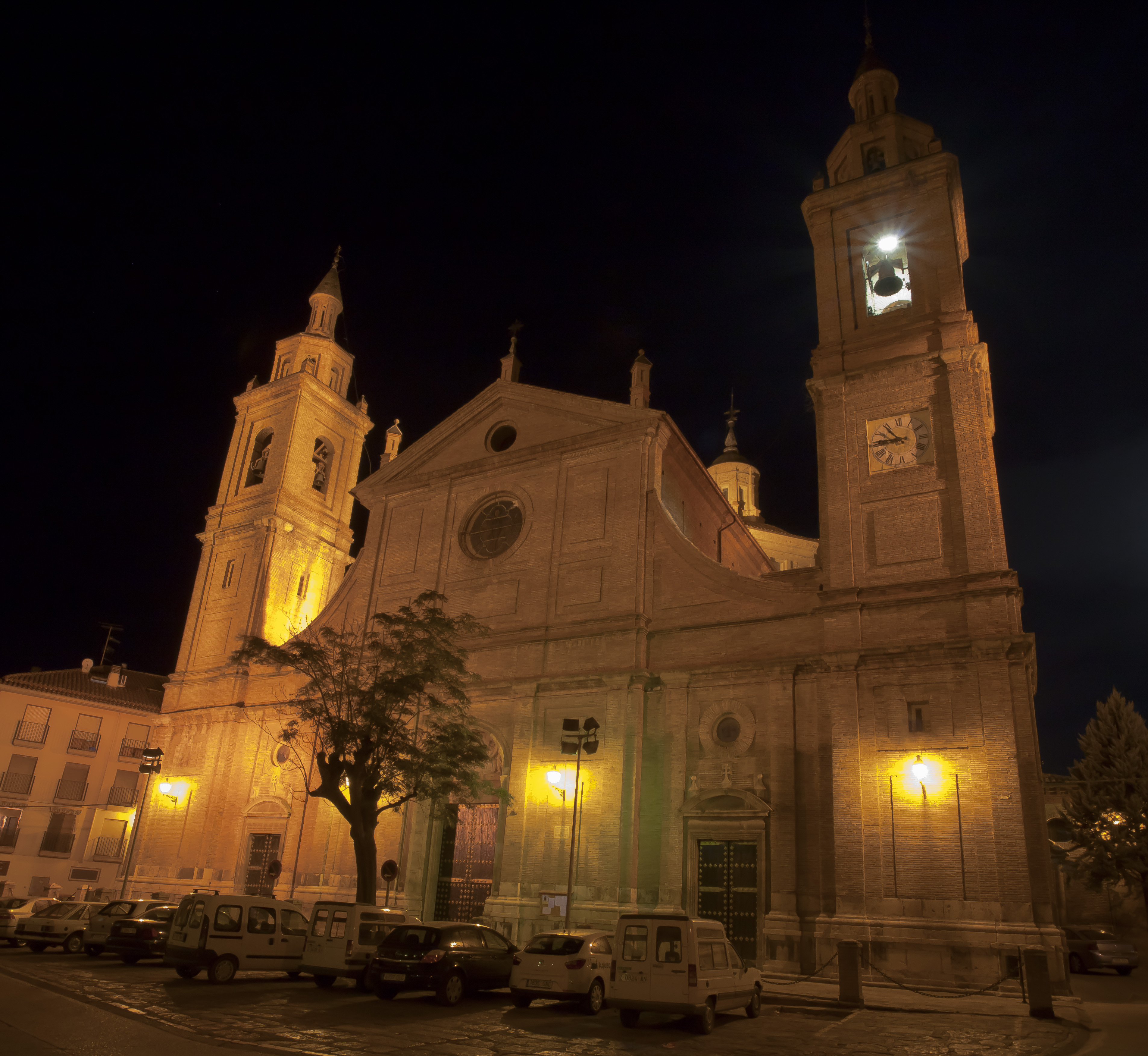 Colegiate of the Santo Sepulcro, Calatayud, Spain